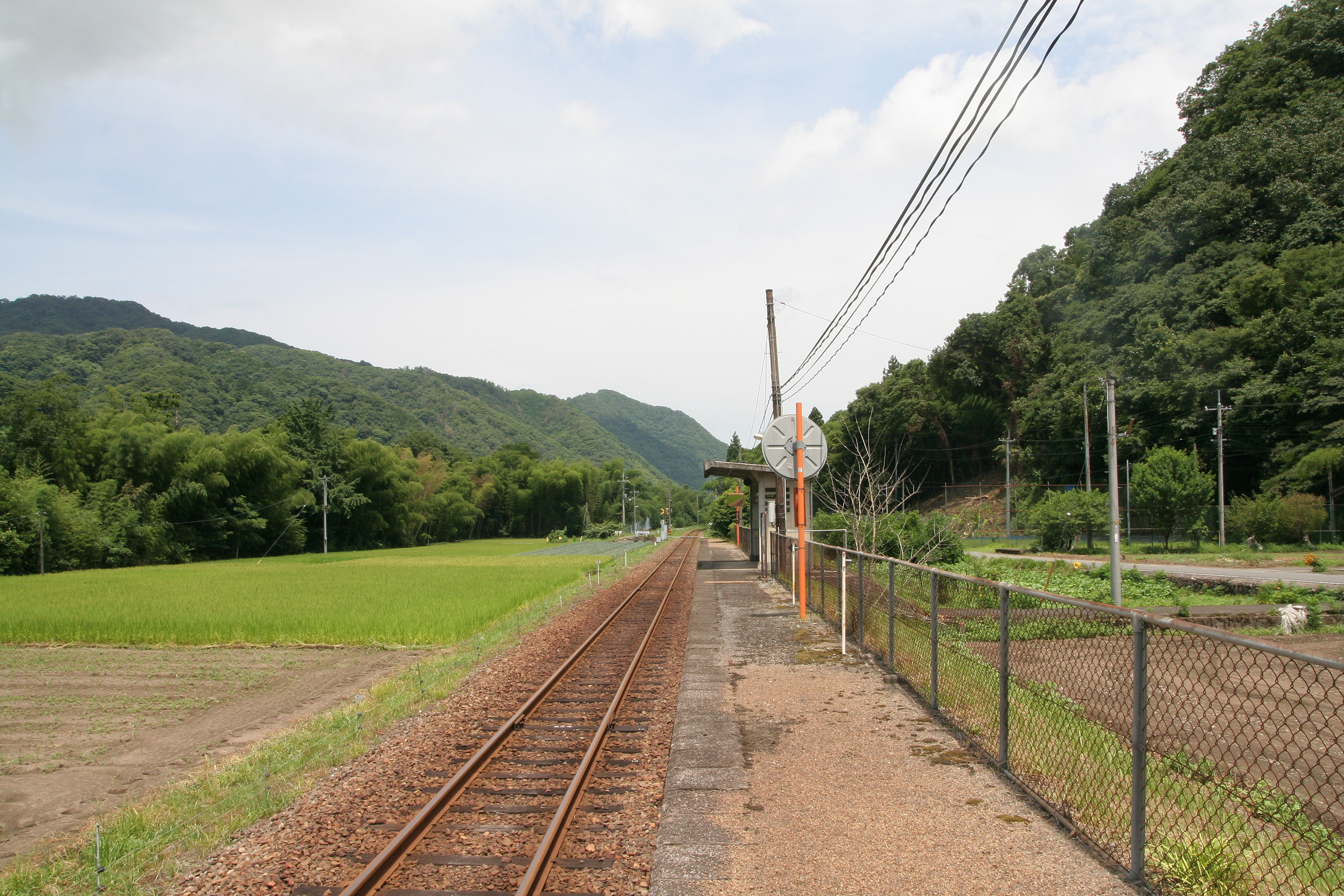 West Japan Railway Sankō Line akatsuka Station enclosure